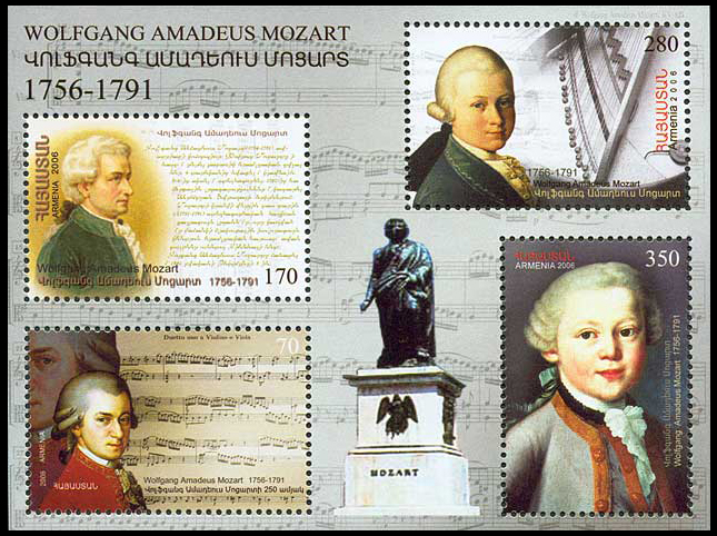 Stamp of Armenia